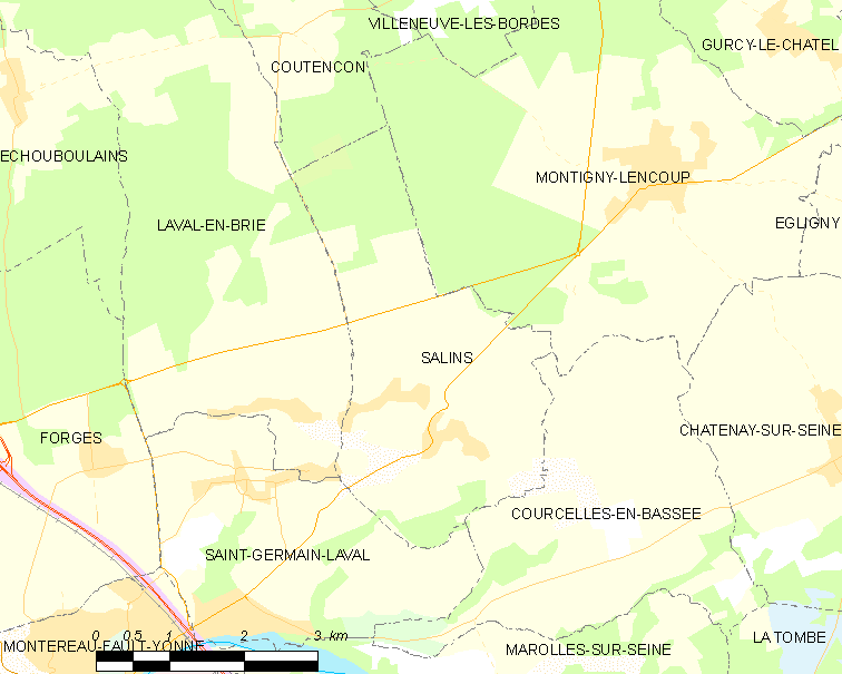 Map of French municipality Salins